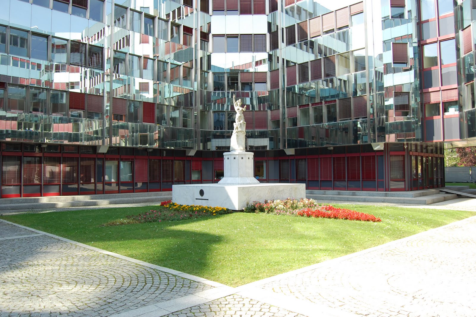 Konrad Adenauer building, European Parliament, Kirchberg, Luxembourg City, Luxembourg